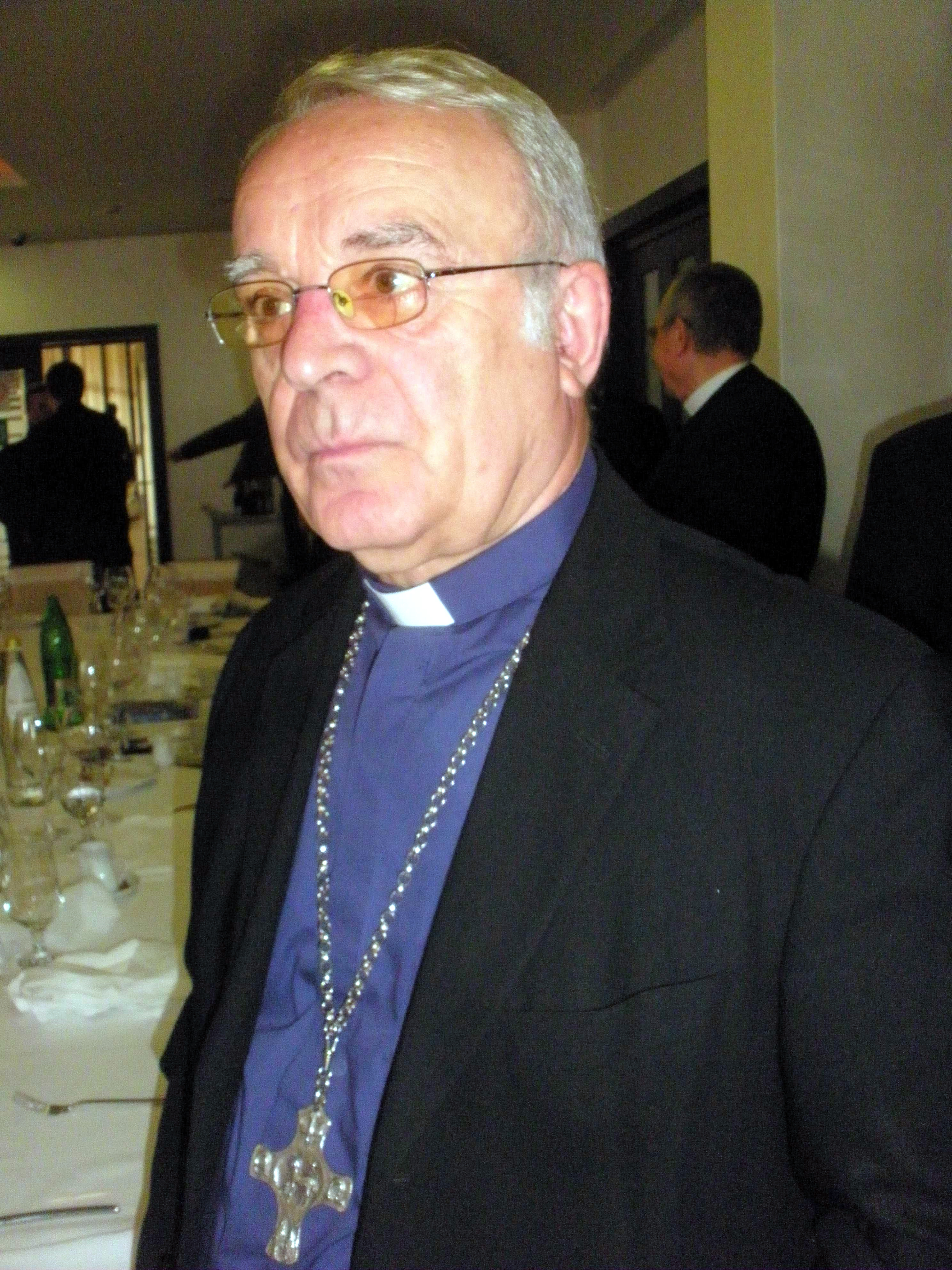 Zef Gashi, arhbishop of Bar in Montenegro, on celebration of Saint Gerhard in Zrenjanin on 8. X. 2011